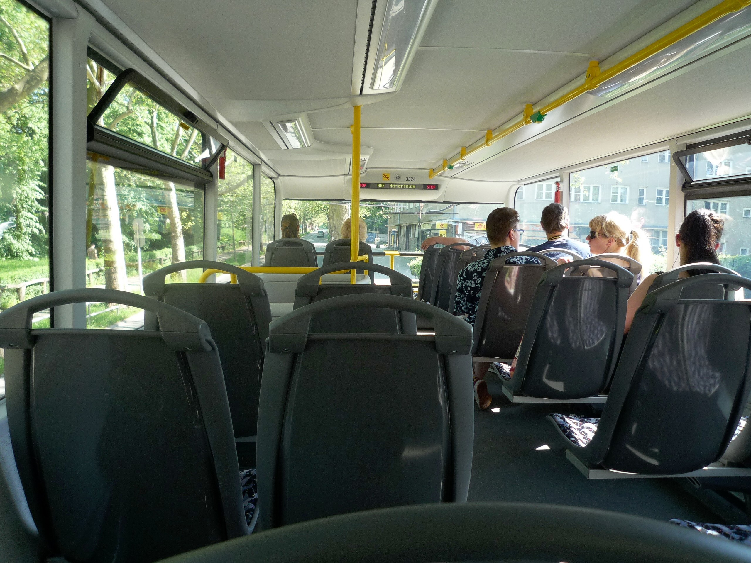 Double-decker bus, line M82 in Berlin. Upper deck interior